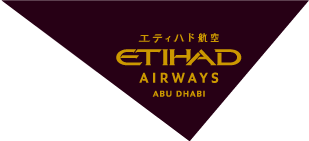 Etihad Airways Japanese logo